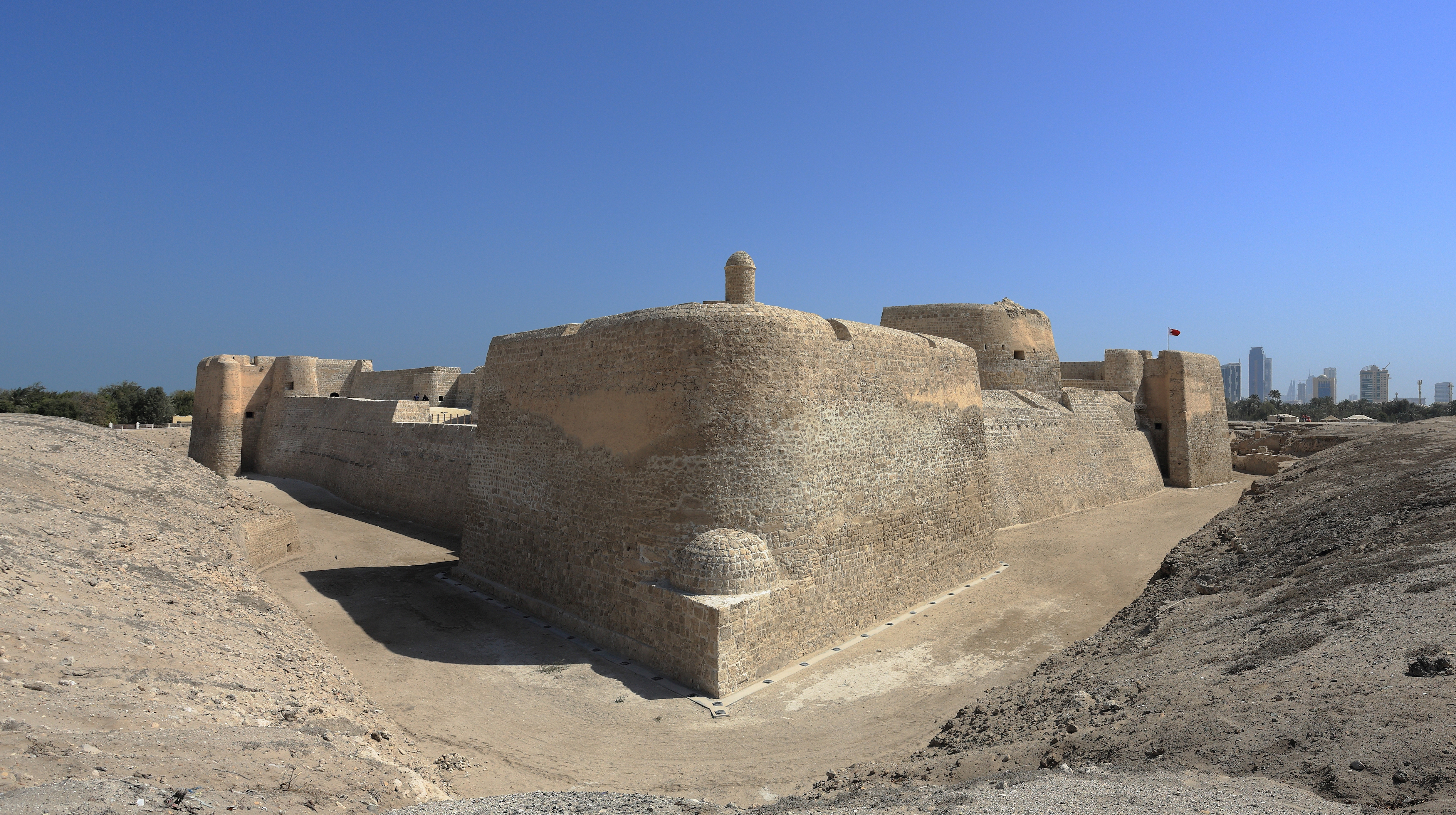 Bahrain Fort (Qalʿat al-Bahrain), UNESCO World Heritage Site Ref. Number 1192.